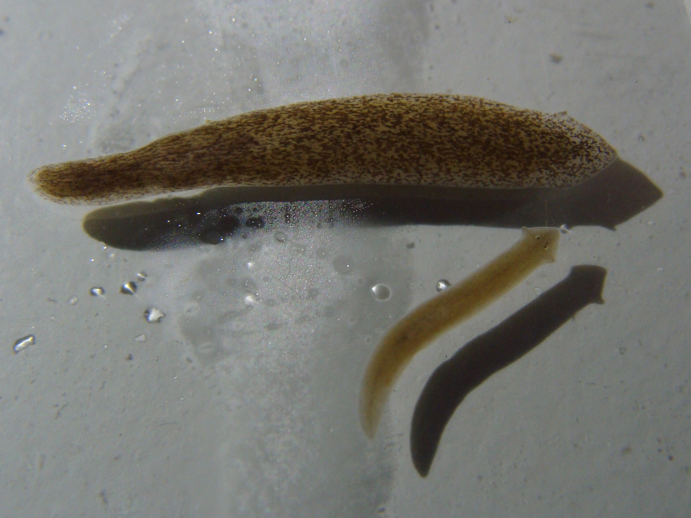 Girardia sp. (top) and Dugesia sp. (down)